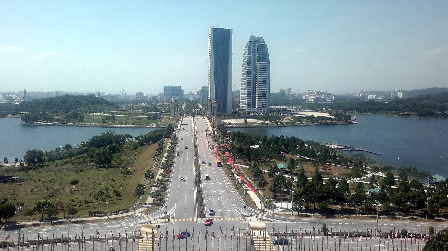 Putrajaya, Malaysia